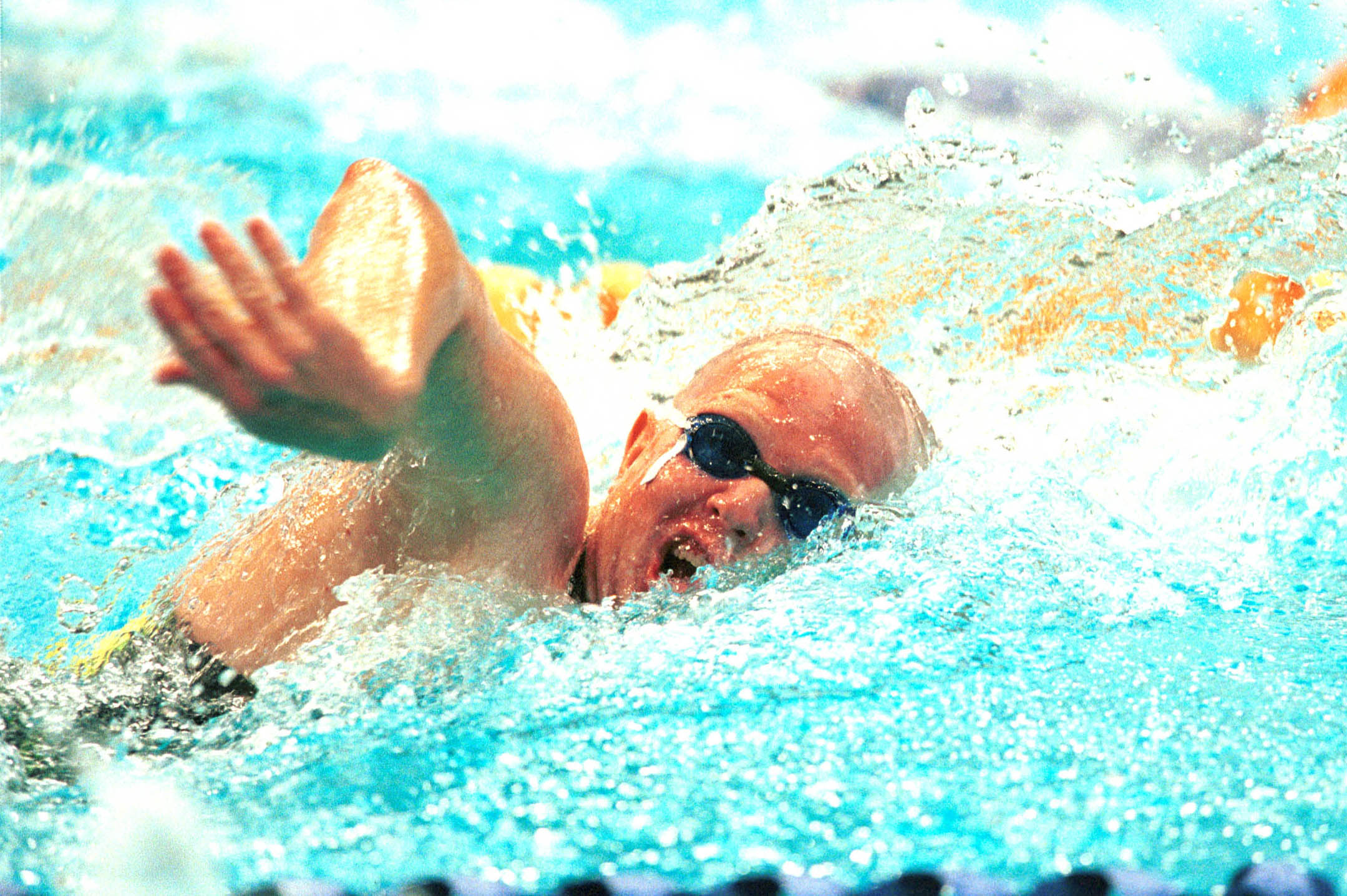 Action shot of Australian swimmer Paul Cross doing freestyle at the 2000 Sydney Paralympic Games